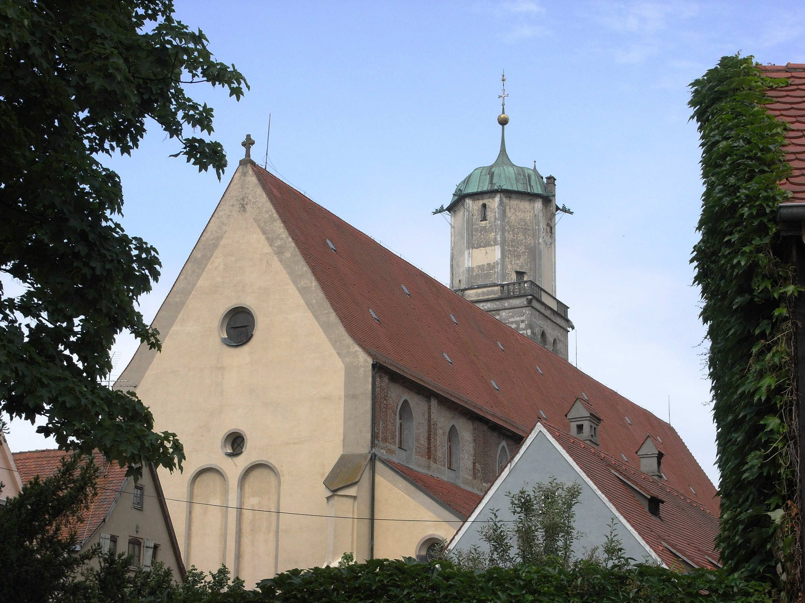 St. Martin of Memmingen in swabia. Photographed from westside (Westergateplace).